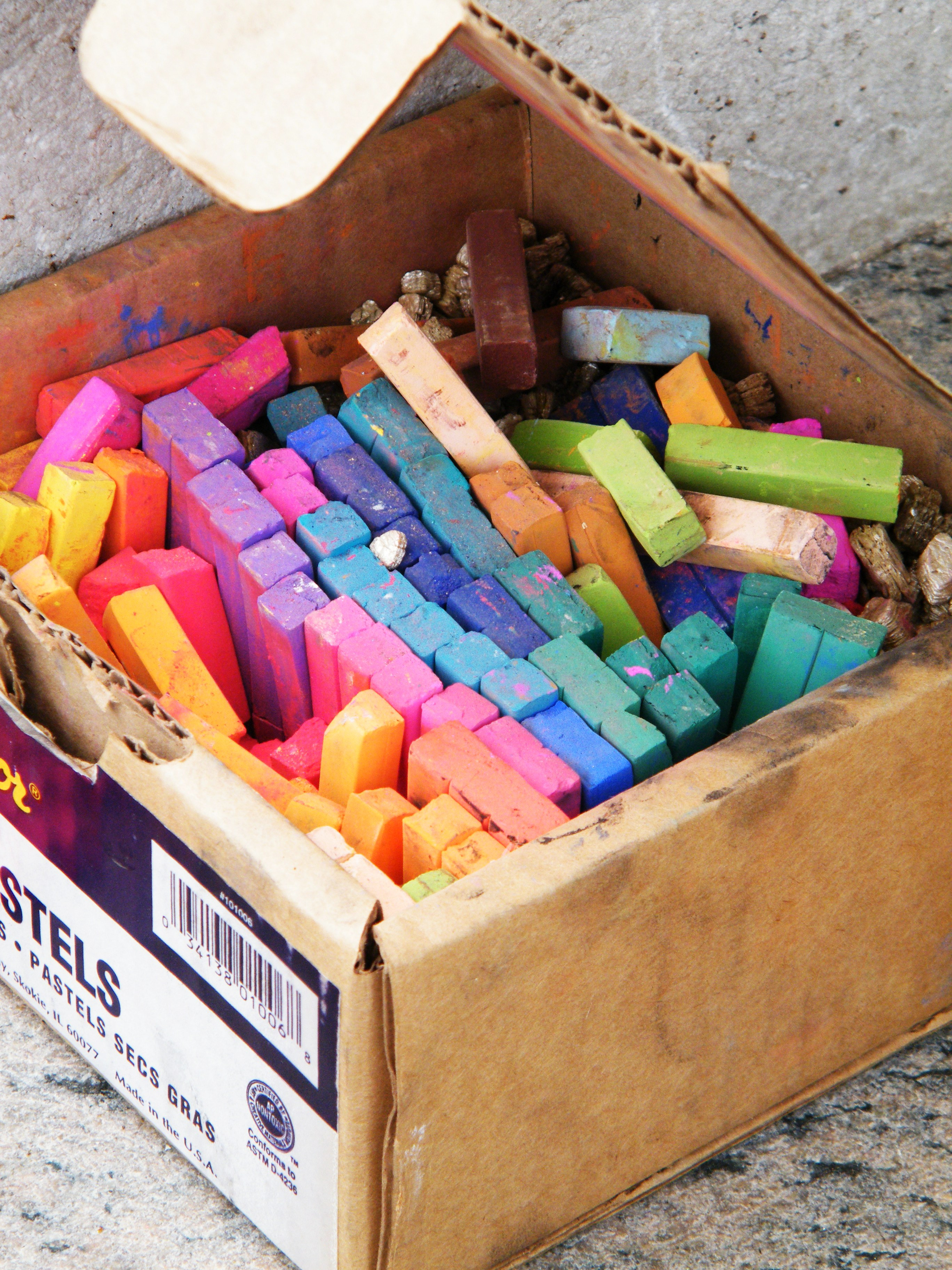 A box of pastels.